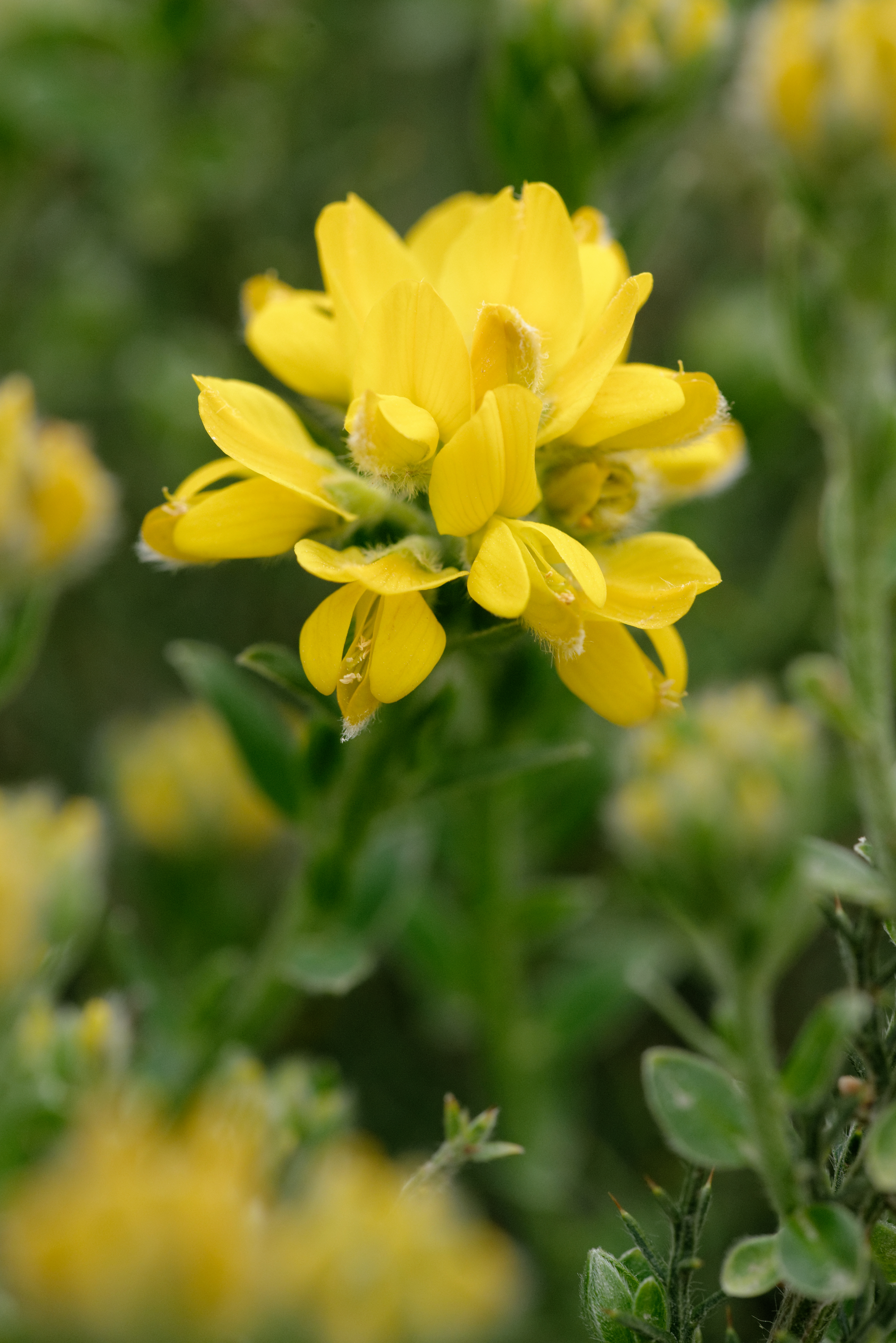 Spanish broom (Genista hispanica). Botanic school, Jardin des Plantes, Paris, France.